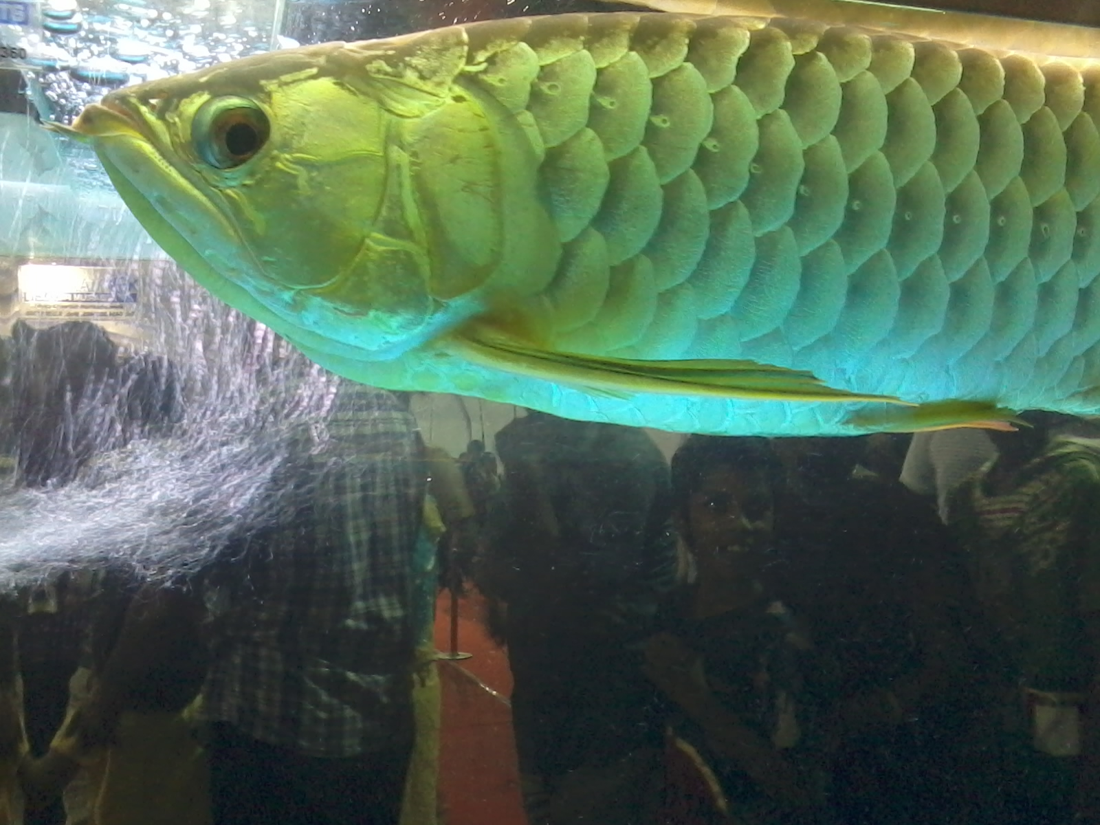 Aquarium fish